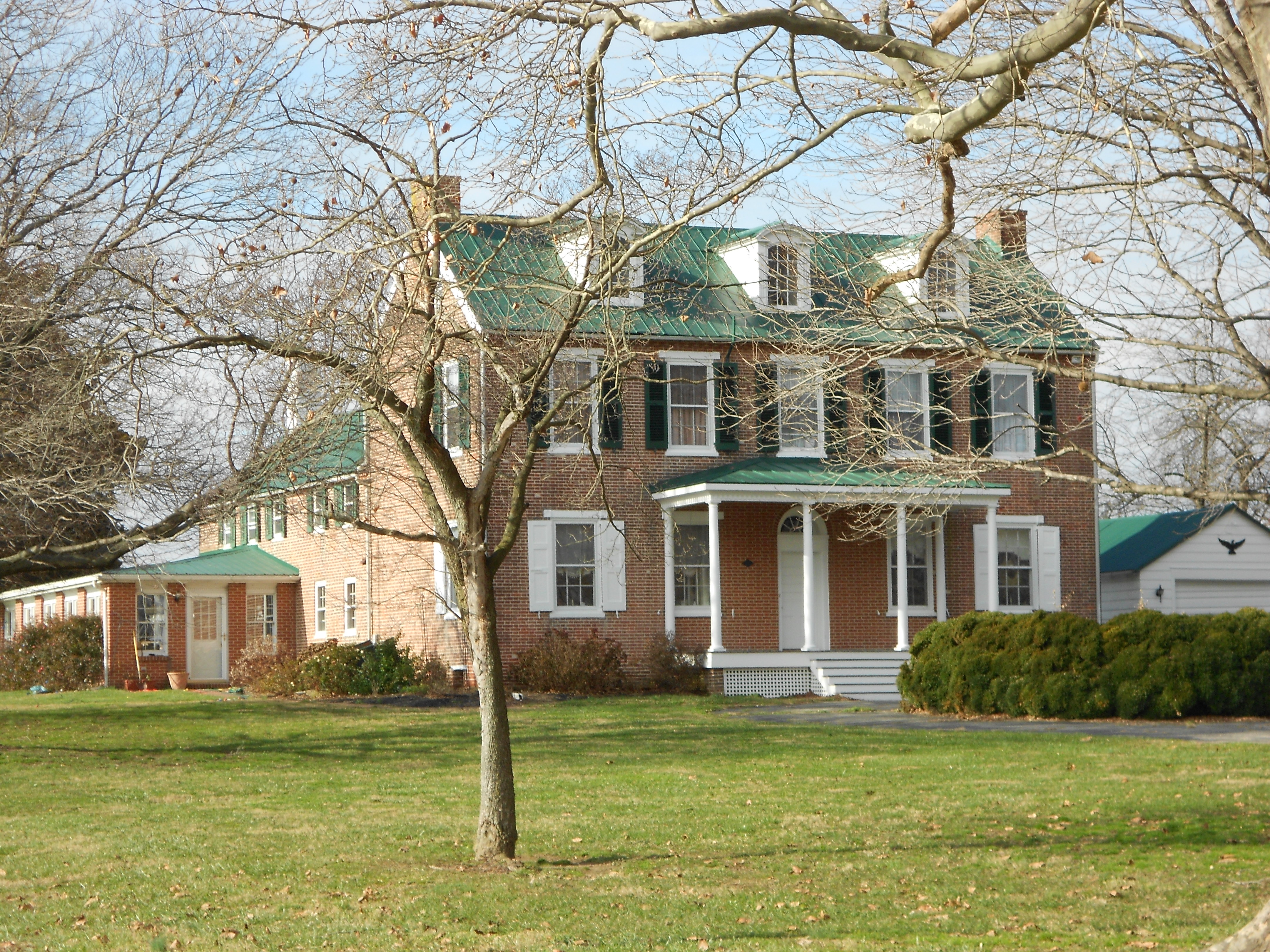 Linden Hill on the NRHP since April 8, 1982, on U.S. Route 13 about a half mile north of St. Georges, Delaware